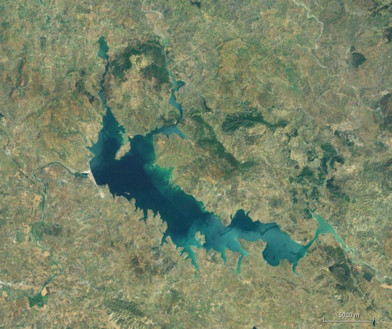 Al Wahda Dam